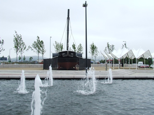 The Comet Now safely installed in the new retail development at Port Glasgow.